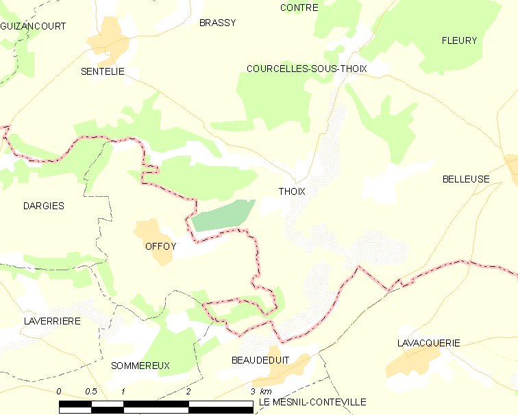 Map of French municipality Thoix